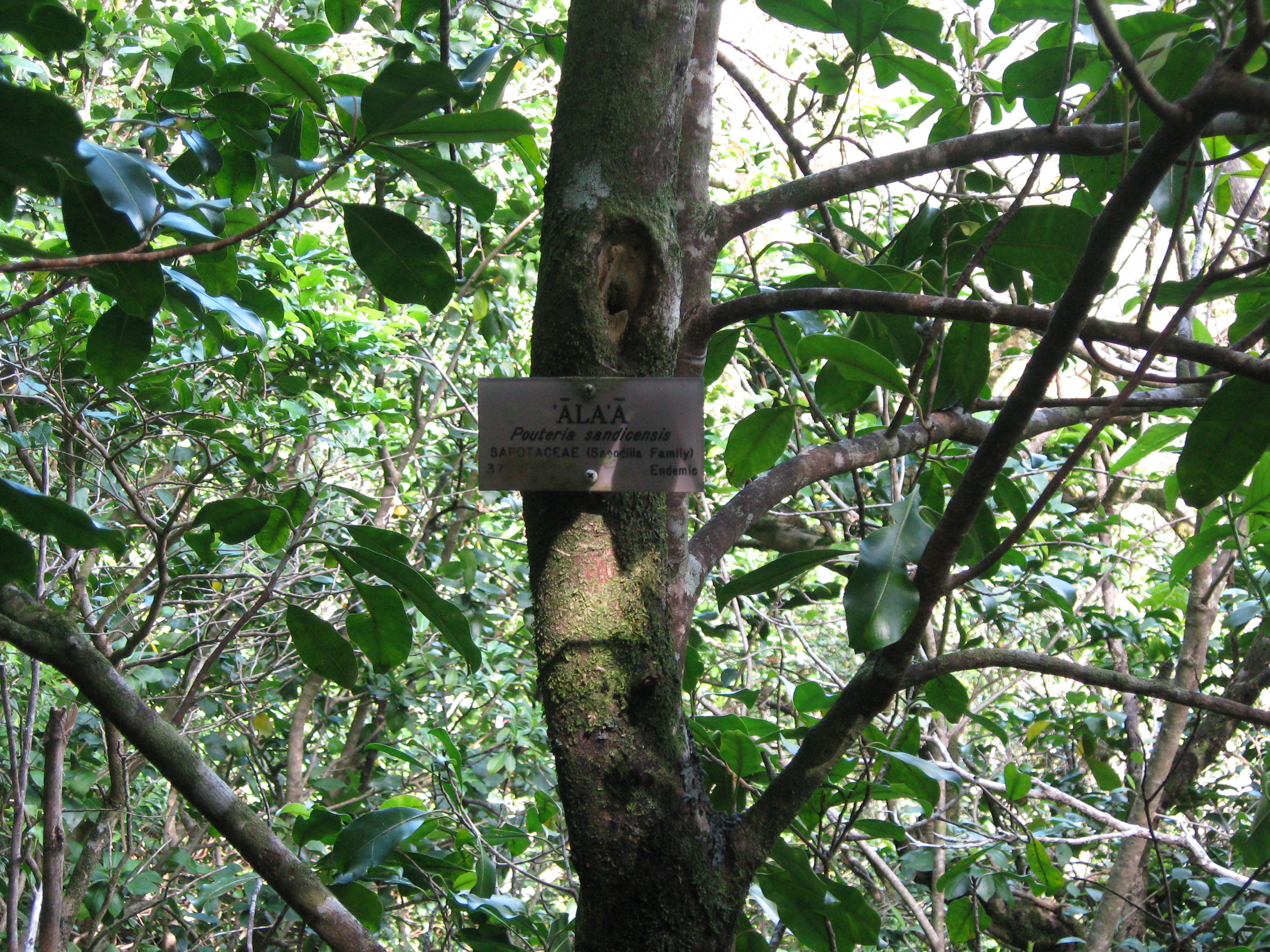 Pouteria sandwicensis 'Ala'a tree trunk